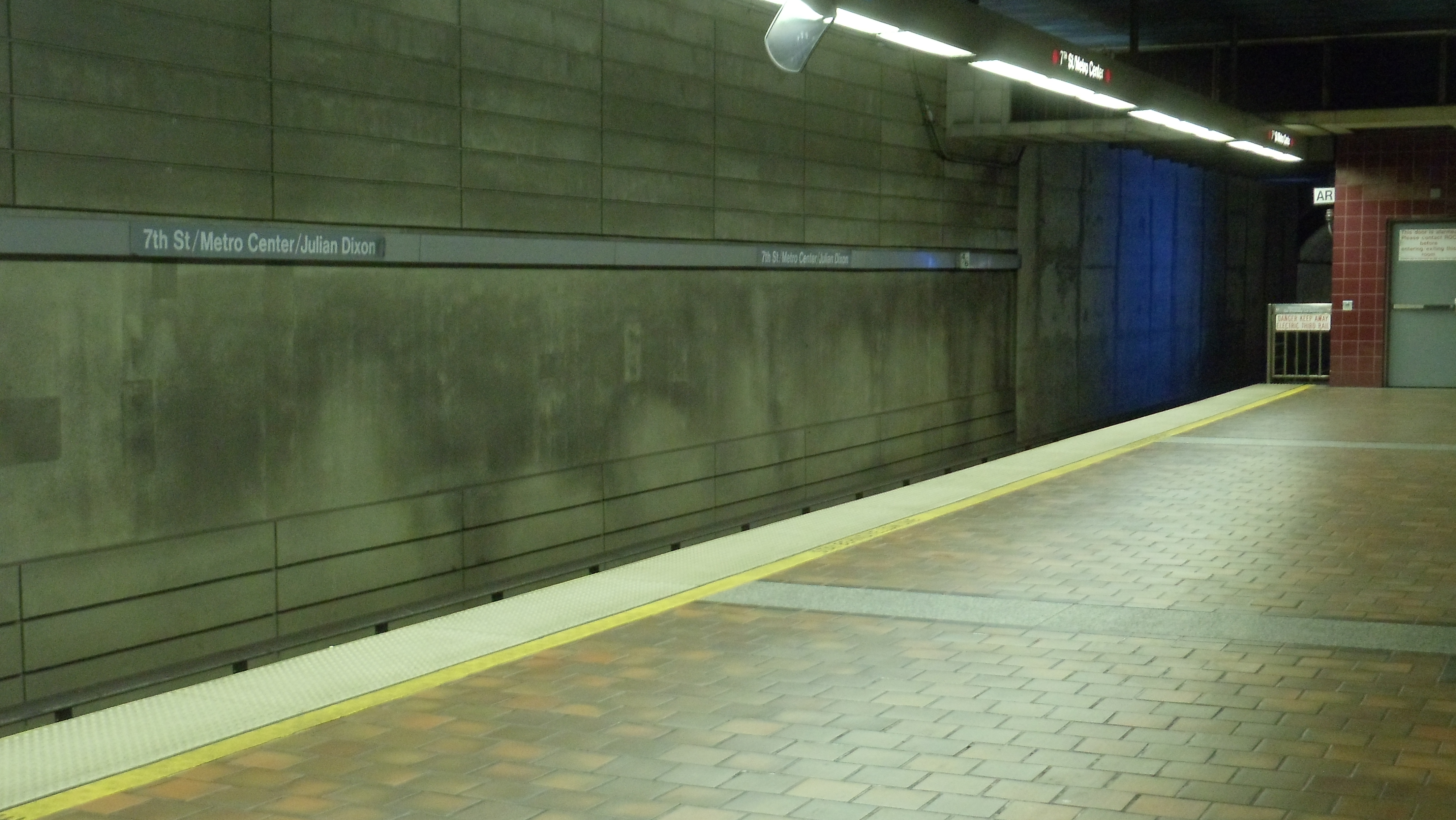 Metro Red & Purple Lines platform at 7th Street/Metro Center Station. At this transfer station passengers can connect to the Metro Silver Line at the street level, or the Metro Blue & Expo Lines above this platform.